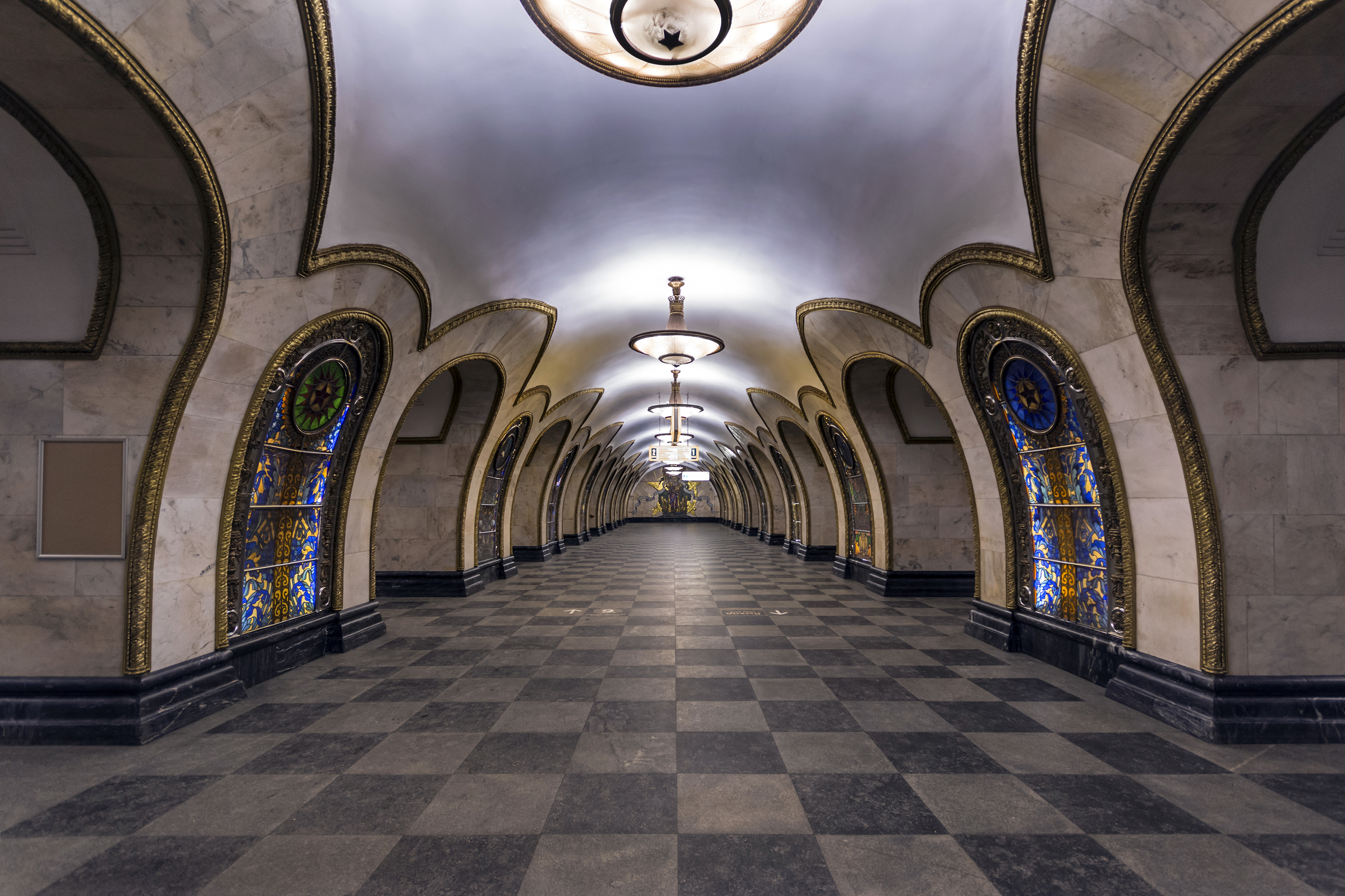 Novoslobodskaya Station of Moscow Subway